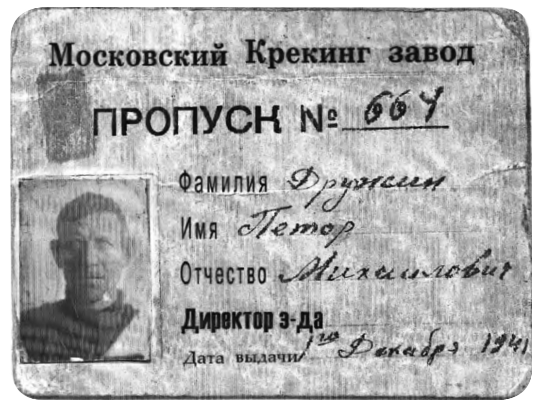 Moscow refinery stuff entry pass (1941).